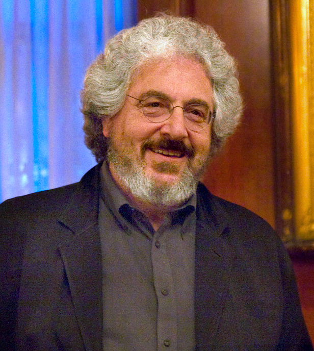 Harold Ramis at a Hudson Union Society event in October 2009.